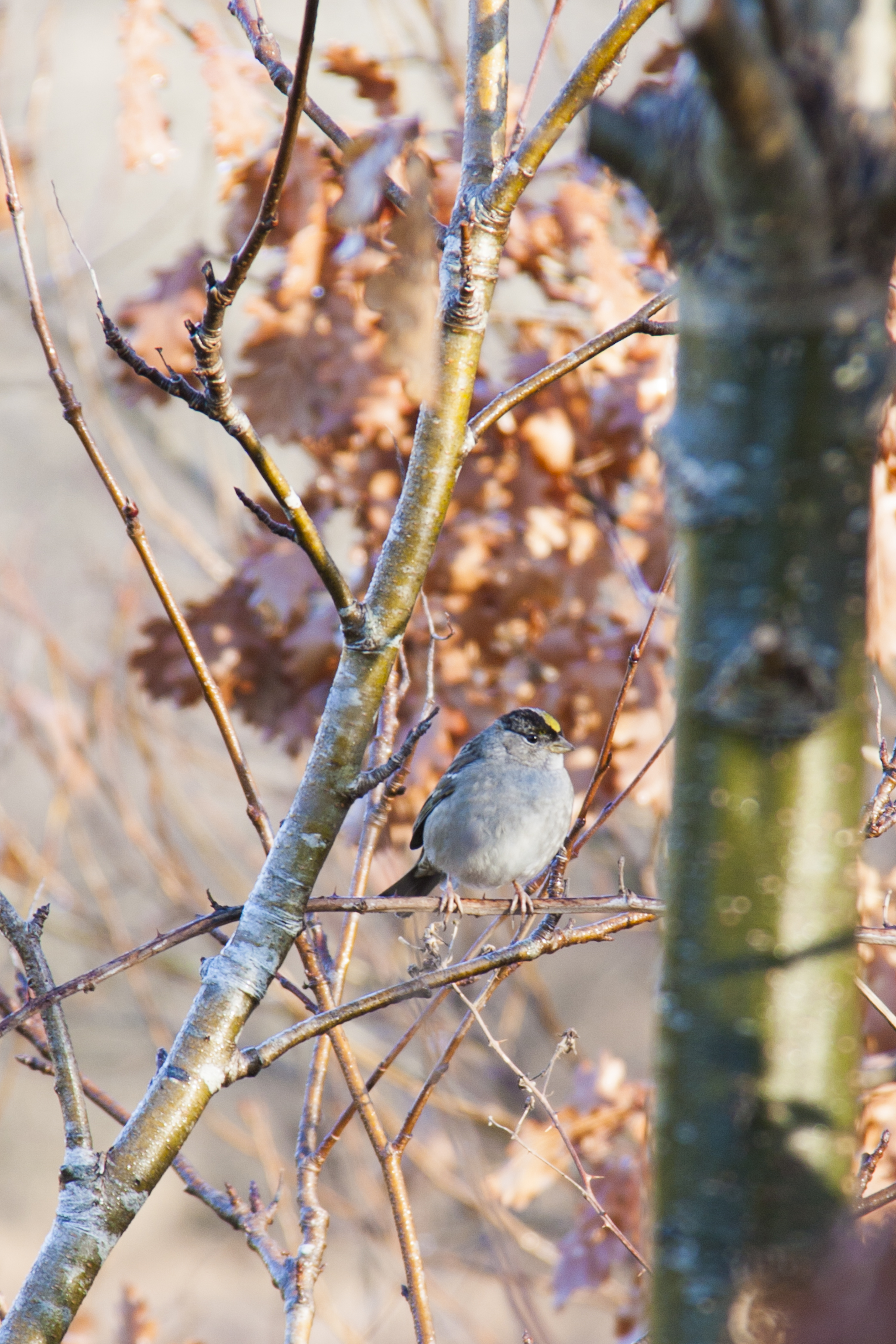 Golden-crowned Sparrow Zonotrichia atricapilla, Maplewood Flats, North Vancouver, BC, Canada